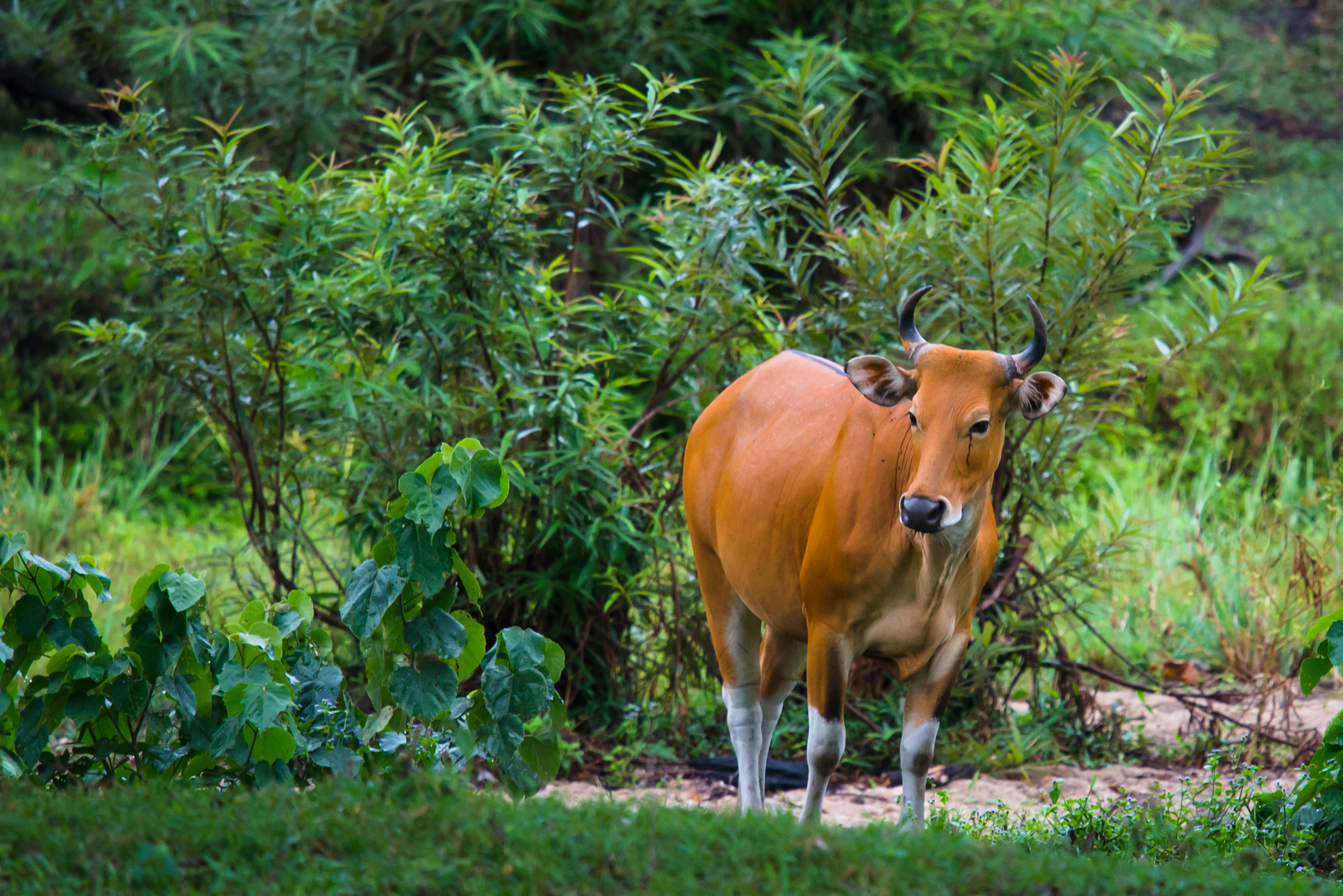 Huai Kha Khaeng Wildlife Sanctuary This photo is published under Creative Commons Attribution-Share-Alike Licence, means you are free to use this photo with attribution under same licence. When giving attribution, please use following; Owner: Thai National Parks Link